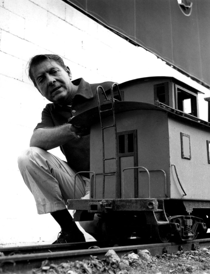 Photo of composer/conductor David Rose in the back yard of his California home with one of his miniature steam-driven trains. Rose was a train enthusiast and had a miniature railroad in the back yard of his home. Rose and his trains were featured on the TV program You Asked for It in 1959.